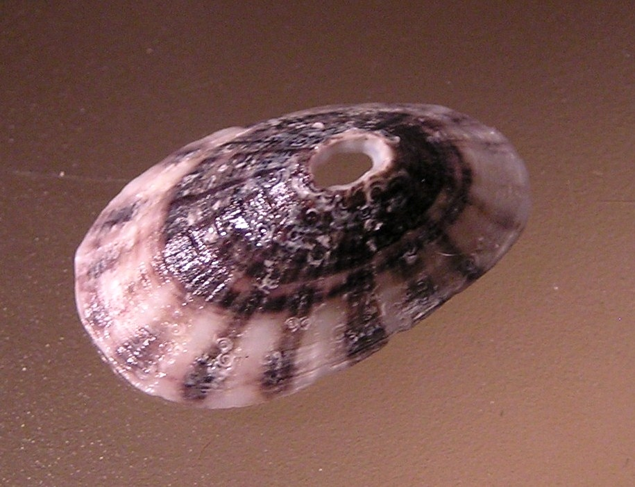 Fissurella radiosa tixierae Metivier, 1969; a keyhole limpet from the family Fissurellidae; Argentina